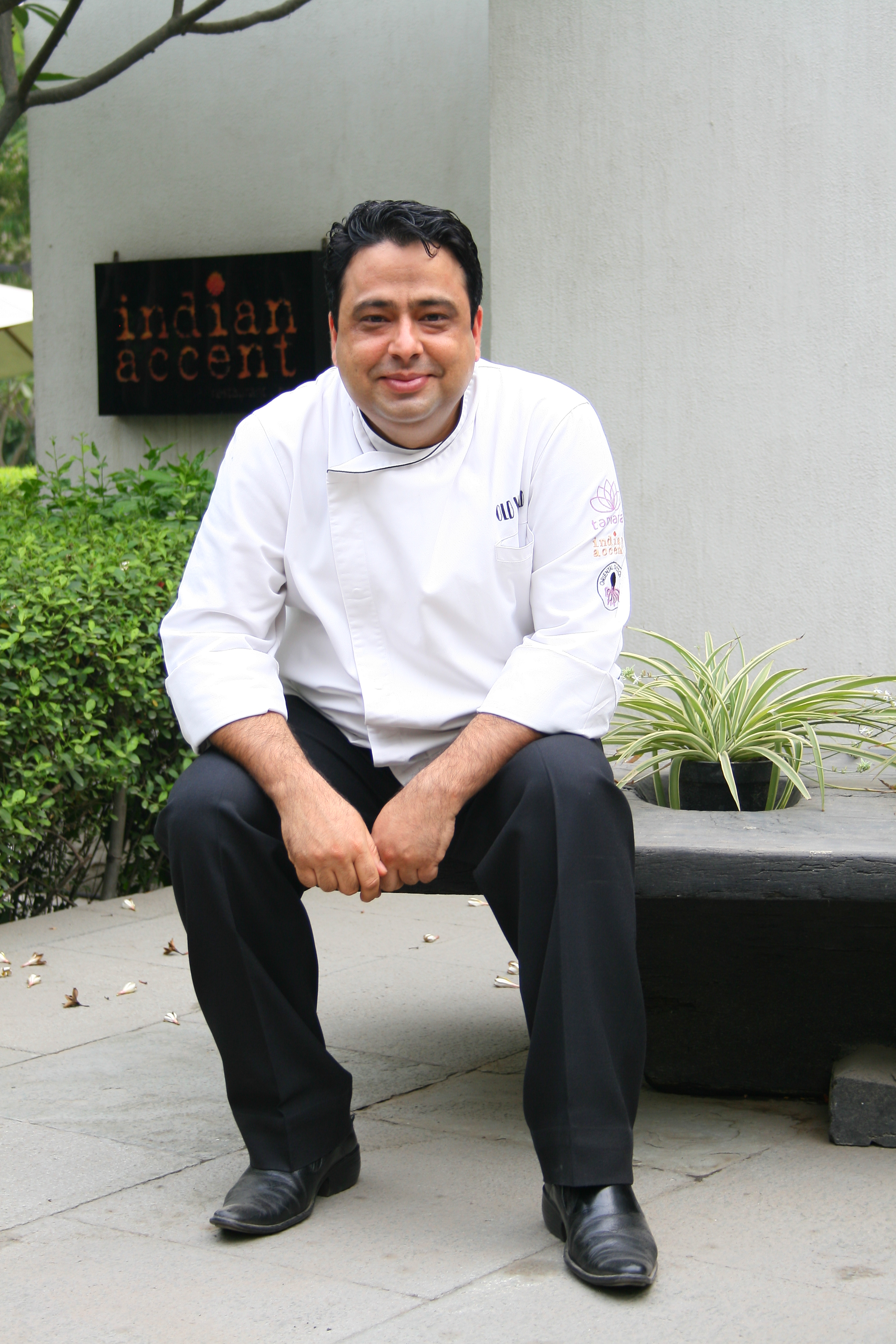 Chef Manish Mehrotra, celebrity Chef from India